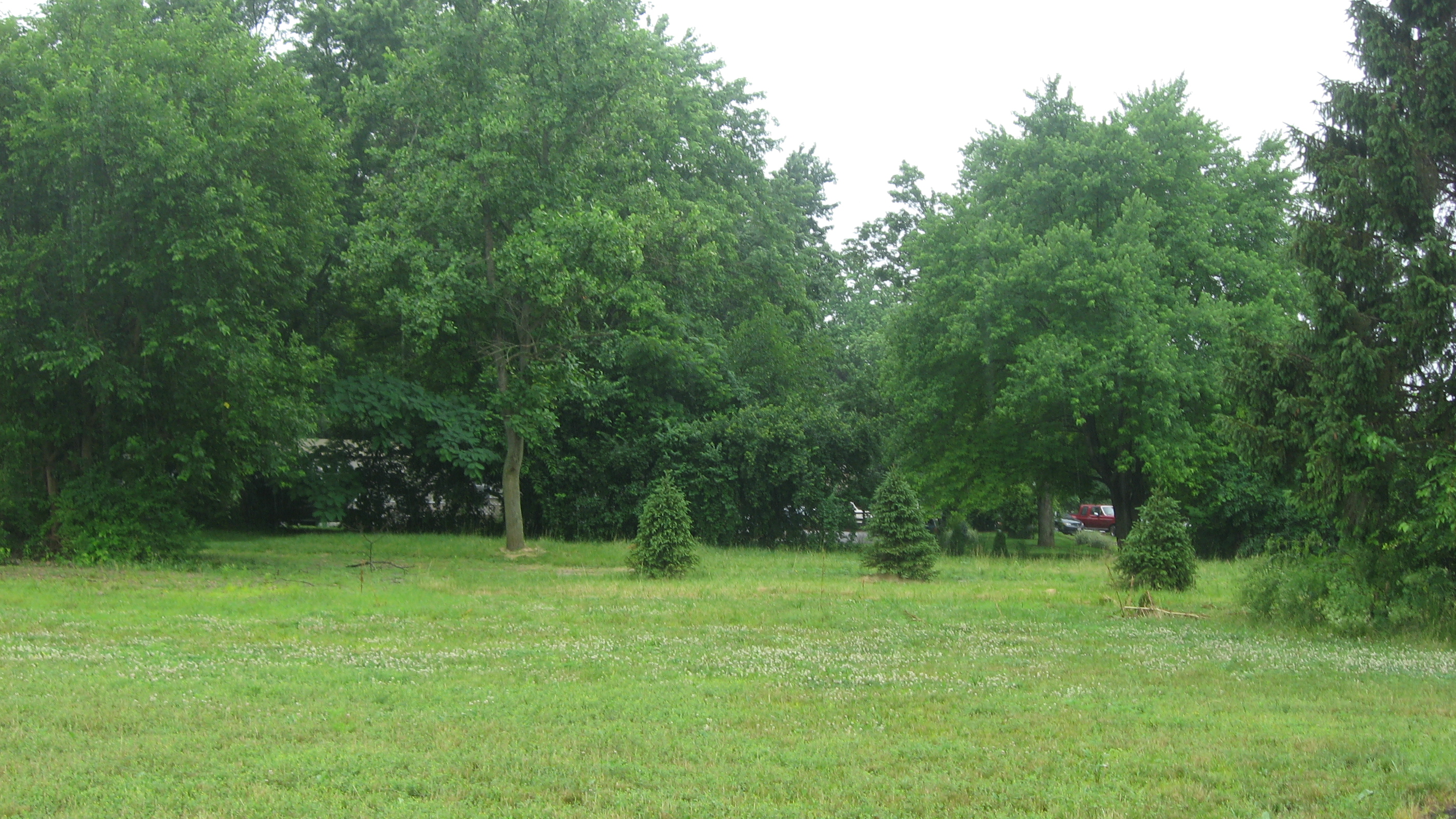 Site of the Harrison-Landers House, located at 3881 Newtown Road north of Newtown in Anderson Township, Hamilton County, Ohio, United States. Built in 1816, it is listed on the National Register of Historic Places, even though it has been destroyed.